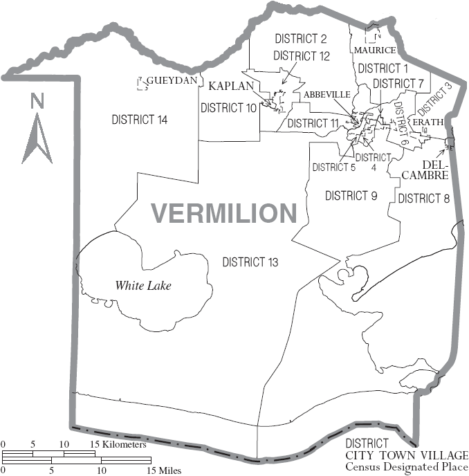 Map of Vermilion Parish, Louisiana, United States with municipal and district boundaries